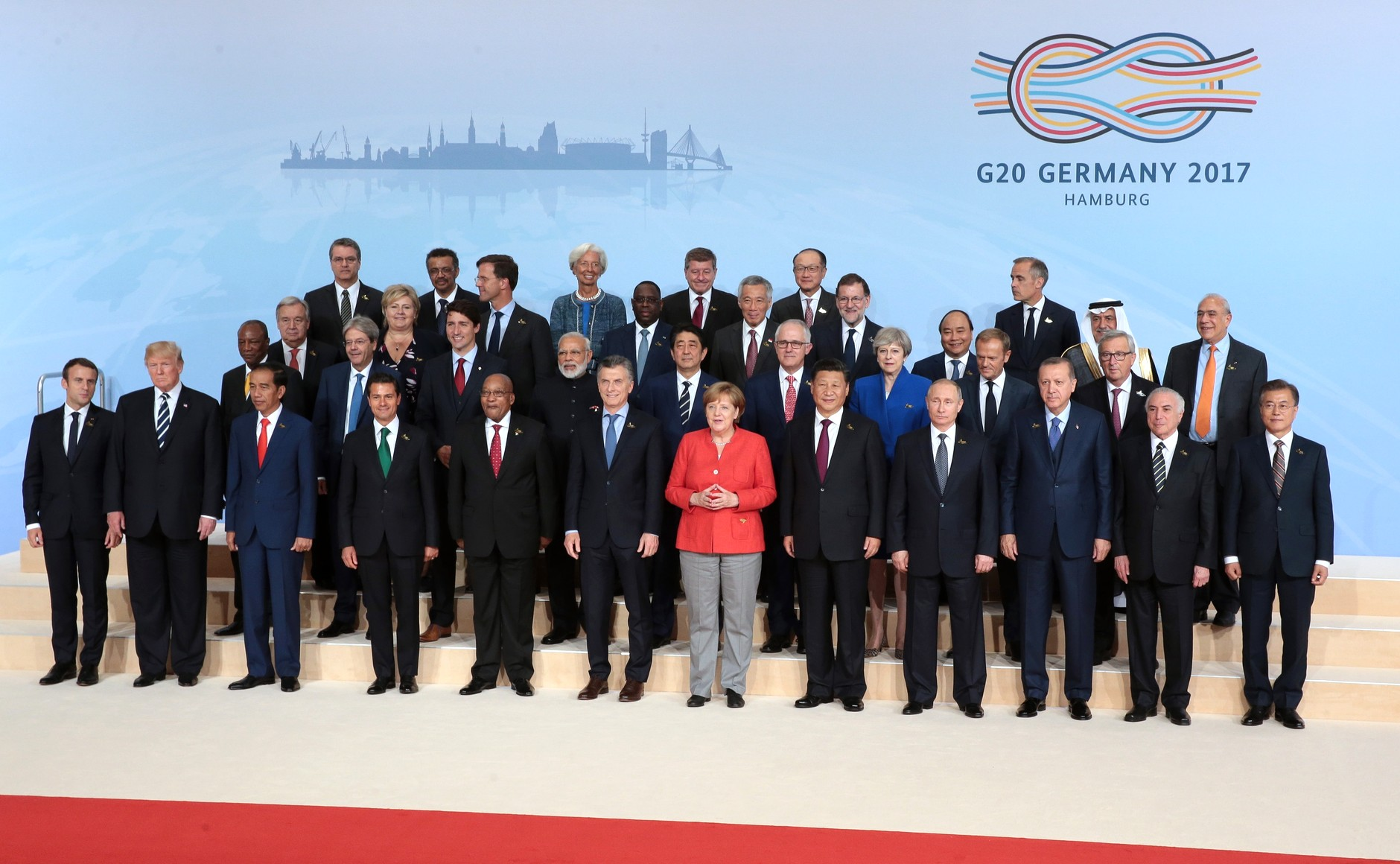 G20 leaders group photo, 2017 summit in Hamburg. Host nation Germany, with Angela Merkel in red; 20 politicians, representing major countries, stand in the first 2 rows: move your mousepointer to the photo (mouseover), if you want to read the names. Or you can go down to the categories at the bottom of page 'Category:Official group photograph of politicians at the 2017 G-20 Hamburg summit' for more photos of the leaders. Guests are in the 3rd row, members of International Organisations in the back of the 'family photo', with Christine Lagarde in the middle.